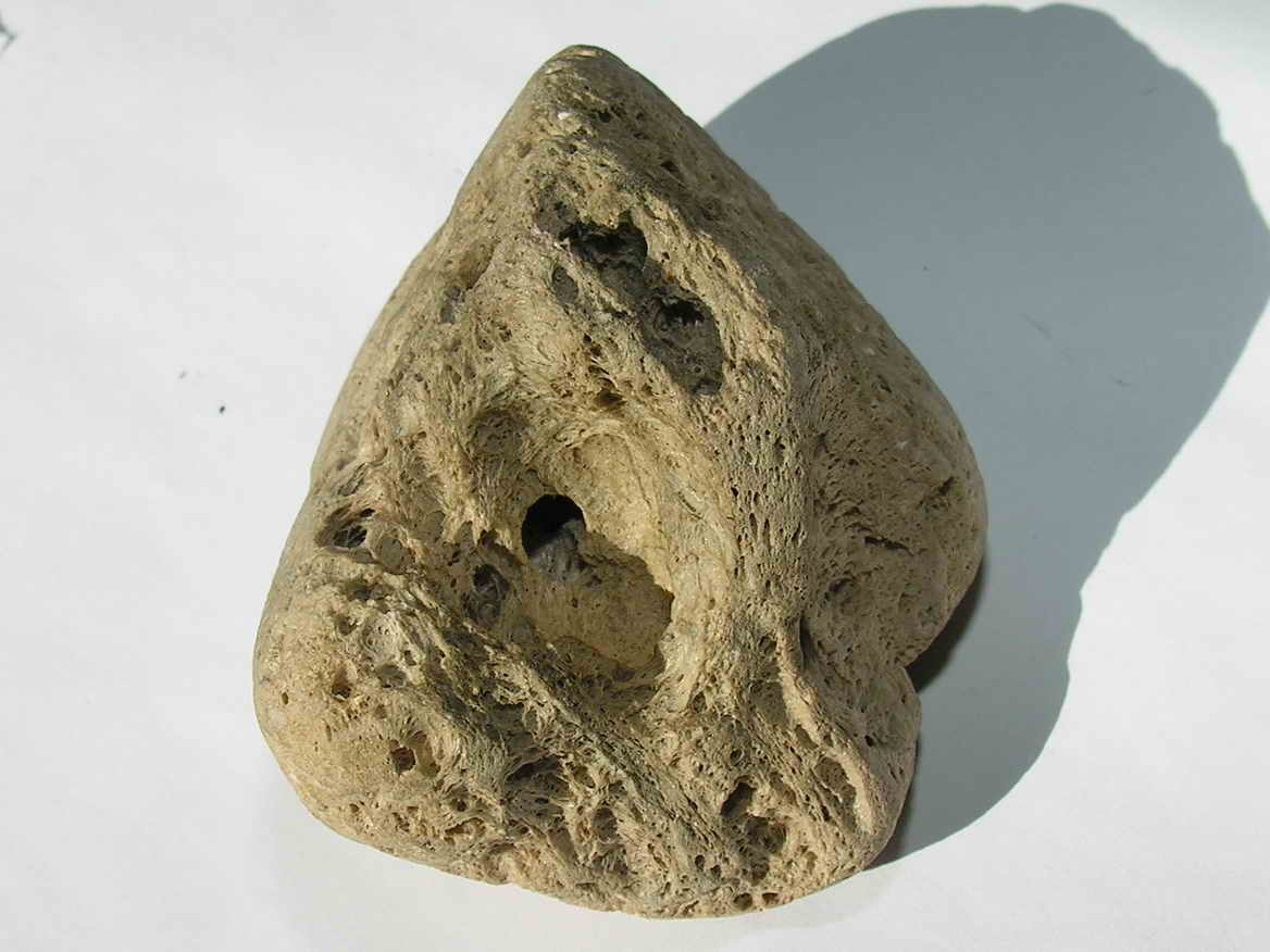 Pumice rock- a very light extrusive igneous rock